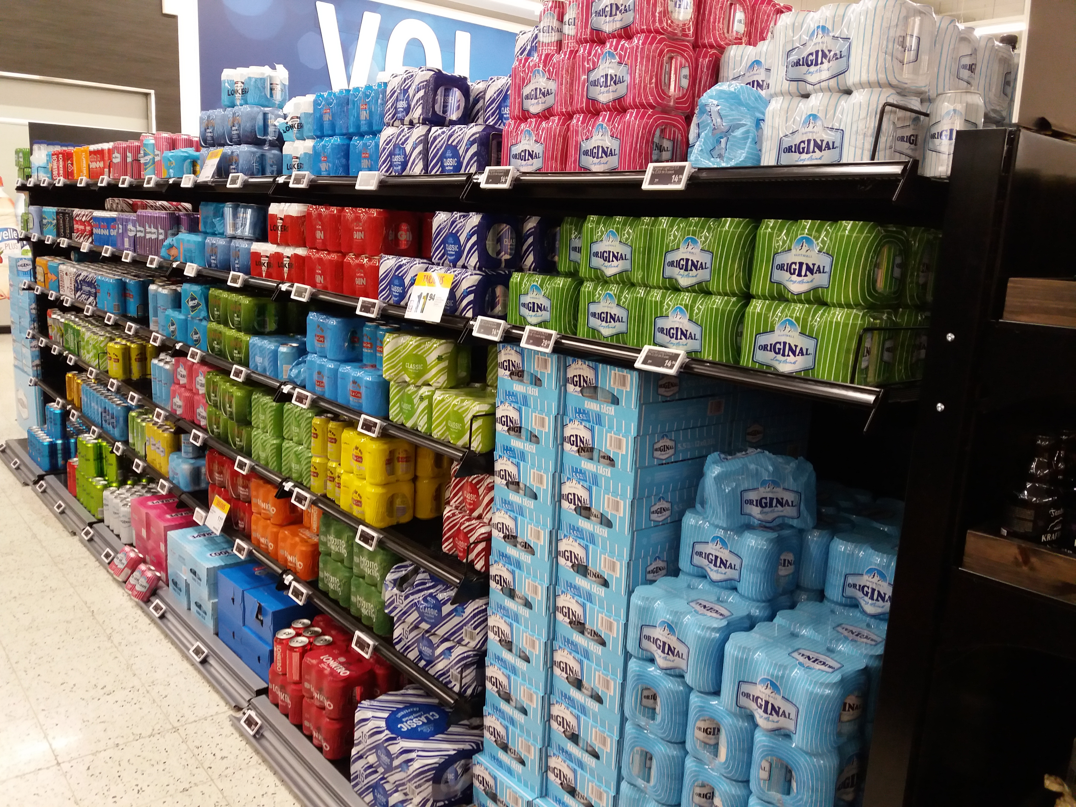 Finnish long drinks for sale in K-Citymarket in Helsinki